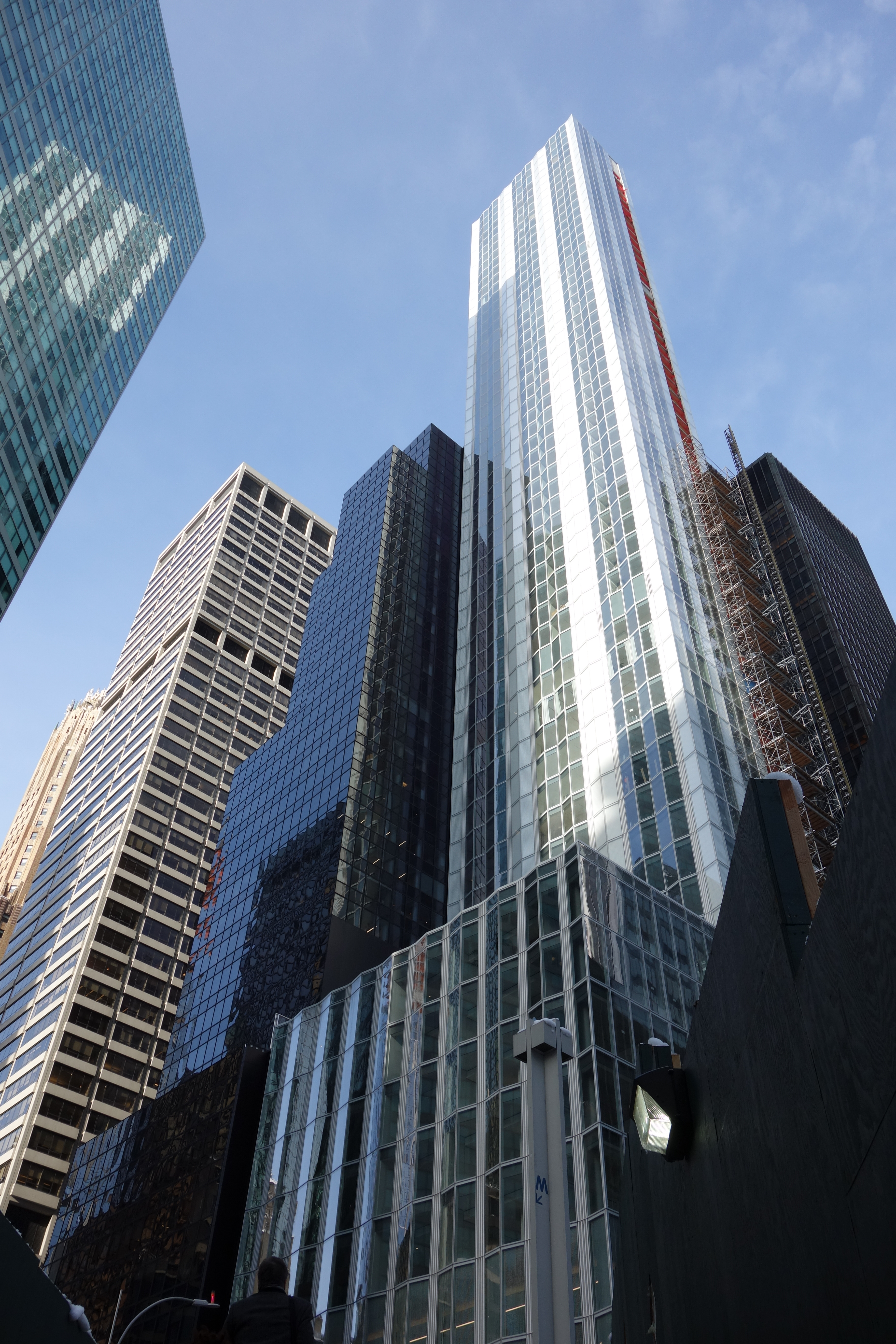 Looking at 100 East 53rd Street, at the southwest corner of Lexington Avenue and 53rd Street in East Midtown Manhattan. Looking from the entrance plaza to the Lexington Avenue / 51st-53rd Streets subway complex in front of the Citigroup Center.